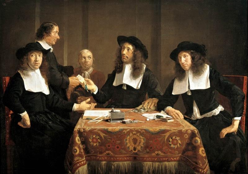 Regents of the "Leproos-, Pest- en Dolhuis" (hospice for leprosy, plague, and "insane" patients) in Haarlem. This complex, dating from the 14th century, still exists and currently houses the Museum of Psychiatry.